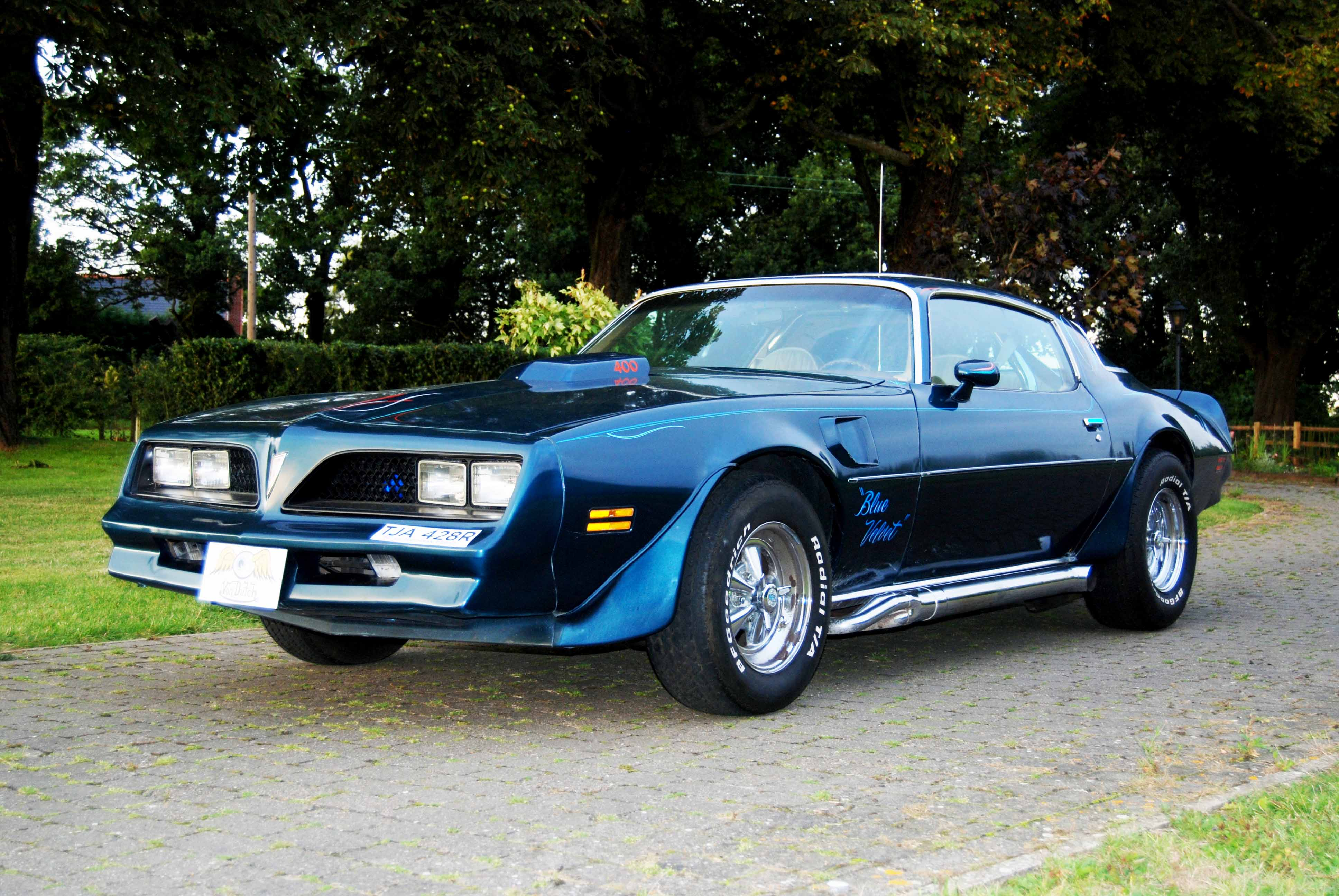 Photograph of the famous Von Dutch Blue Velvet Pontiac Firebird